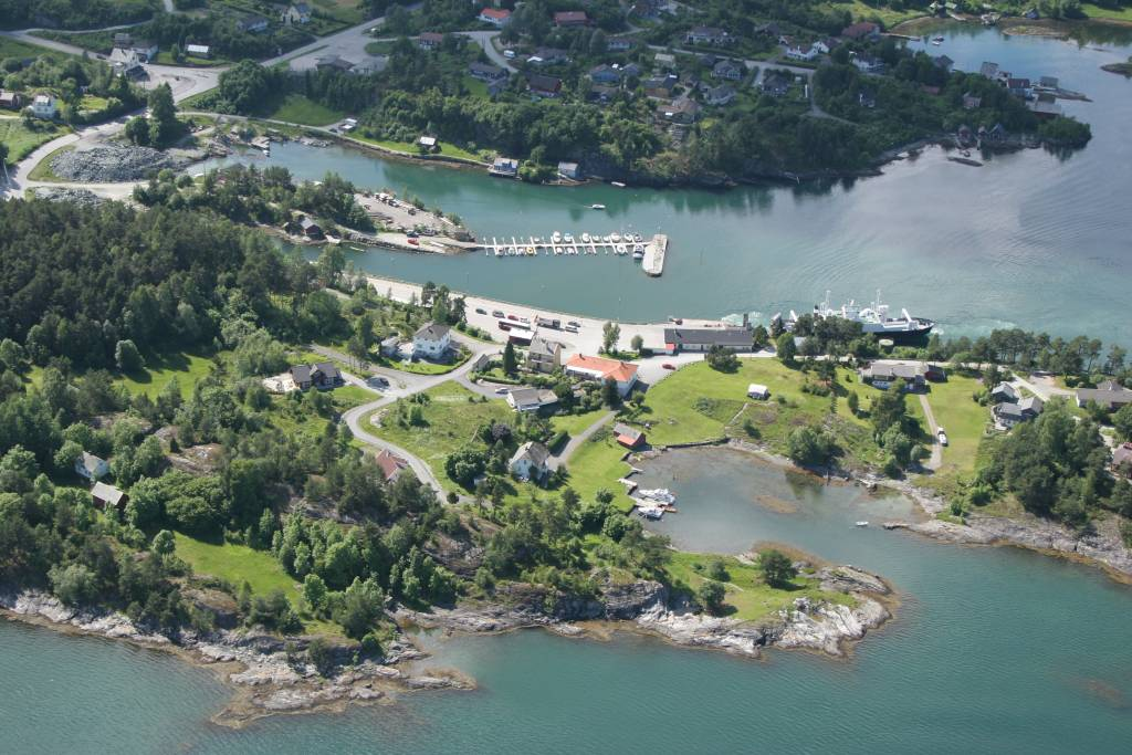 Aerial photo of Gjermundshavn, Hatlestrand parish in Kvinherad municipality, Hordaland county, Norway